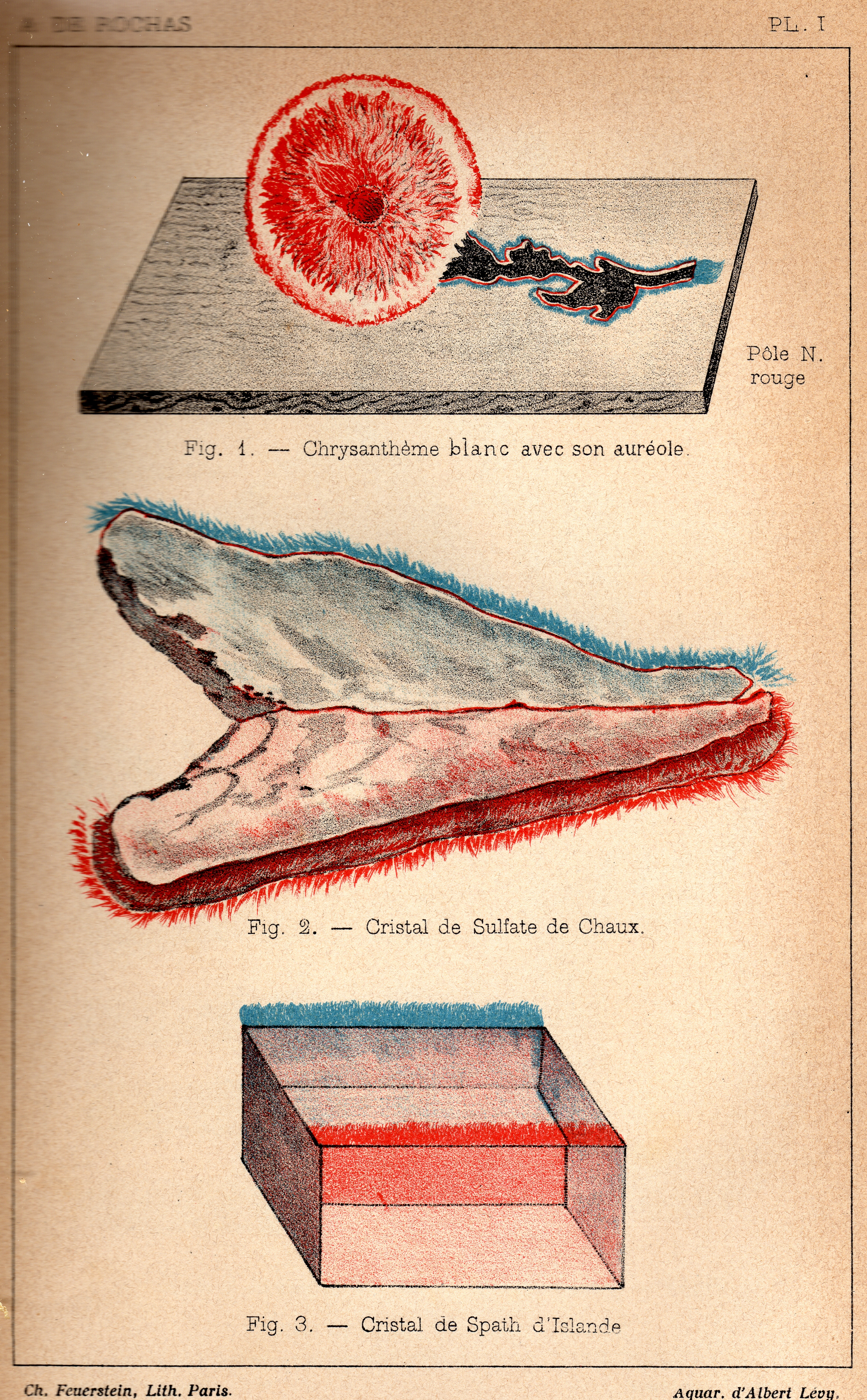 Color plate from source.